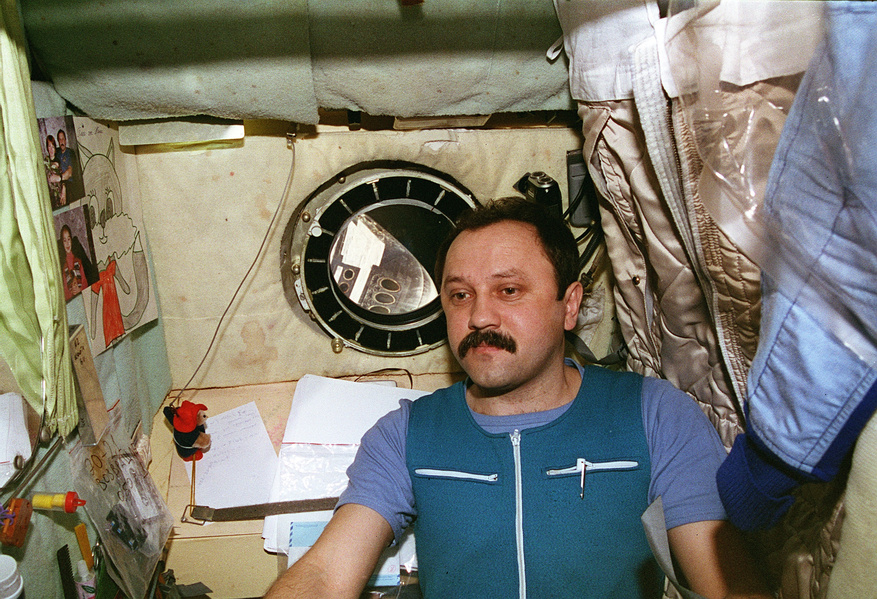 (22-31 March 1996) – Cosmonaut Yury V. Usachev, Mir-21 flight engineer, reflects on his mission duties in his living quarters aboard Russia's Mir Space Station. His temporary out-the-window scenery is provided by the nose of the Space Shuttle Atlantis, which docked with Mir on March 23, 1996.